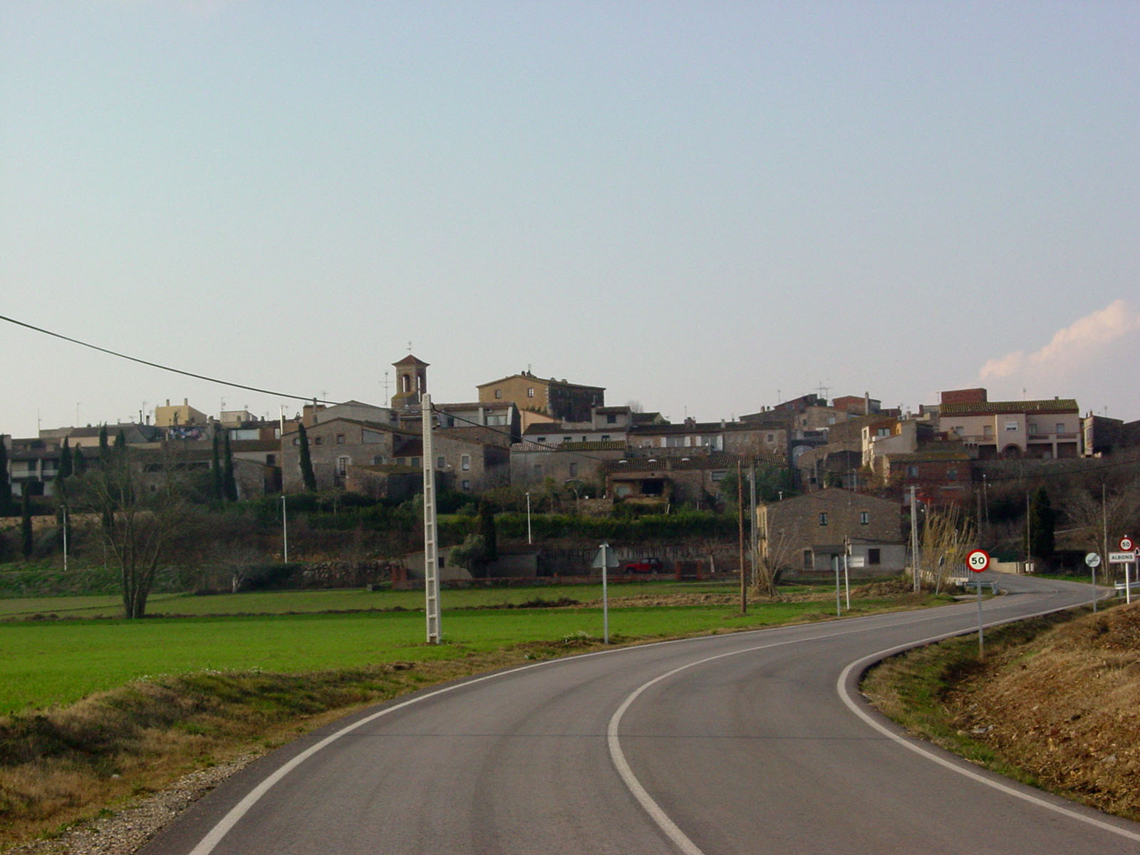 Albons general viewing.